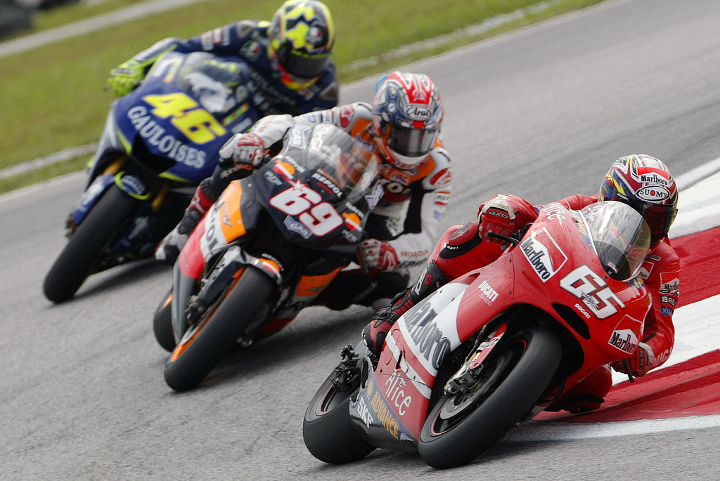 Loris Capirossi (#65 Marlboro Ducati Desmosedici GP5), Nicky Hayden (#69 Repsol Honda RC211V) and Valentino Rossi (#46 Gauloises Yamaha YZR-M1), 2005 Malaysian MotoGP Grand Prix.